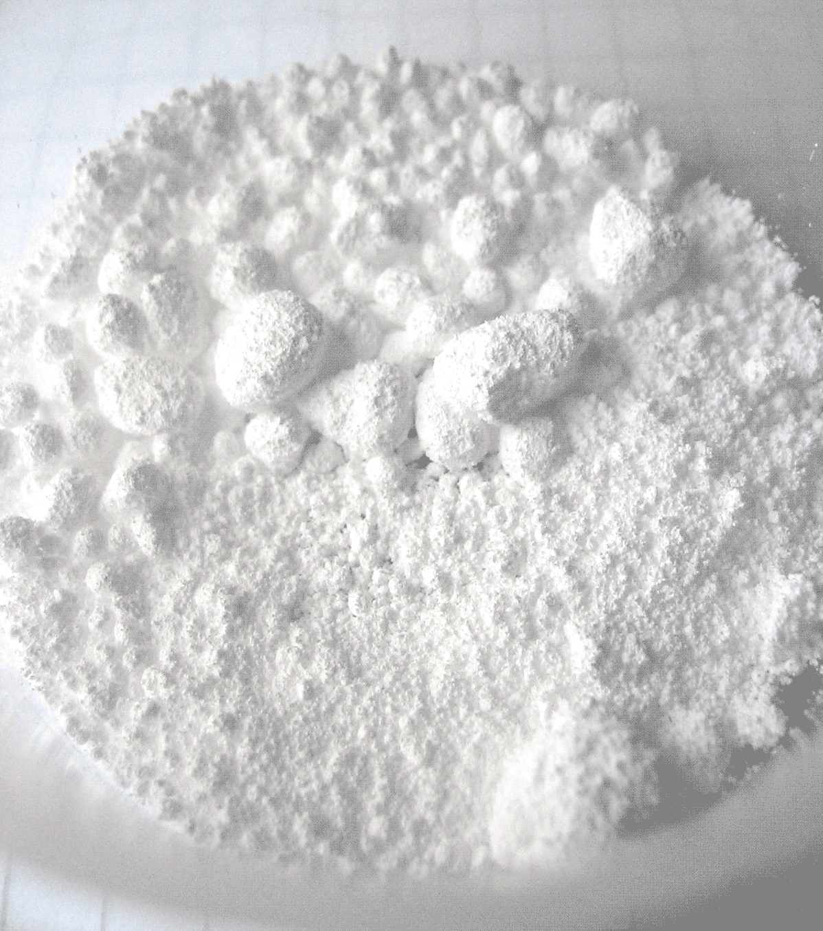 Cadmiumsulfatreaktion, Barium sulfate, BaSO4, aufgenommen während des Chemie-Nebenfachpraktikums am IAC der RWTH Aachen